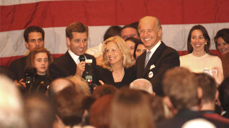 Beau Biden gives his victory speech as Delaware's newly-elected Attorney General on November 7, 2006 as Jill Biden, Joe Biden and the Biden family look on.